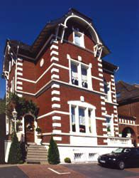 Das Haus in der Beisselstraße Nr. 5 in Bergheim